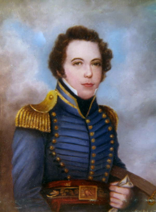 Portrait of James Gadsden, after Charles Fraser (1782-1860)